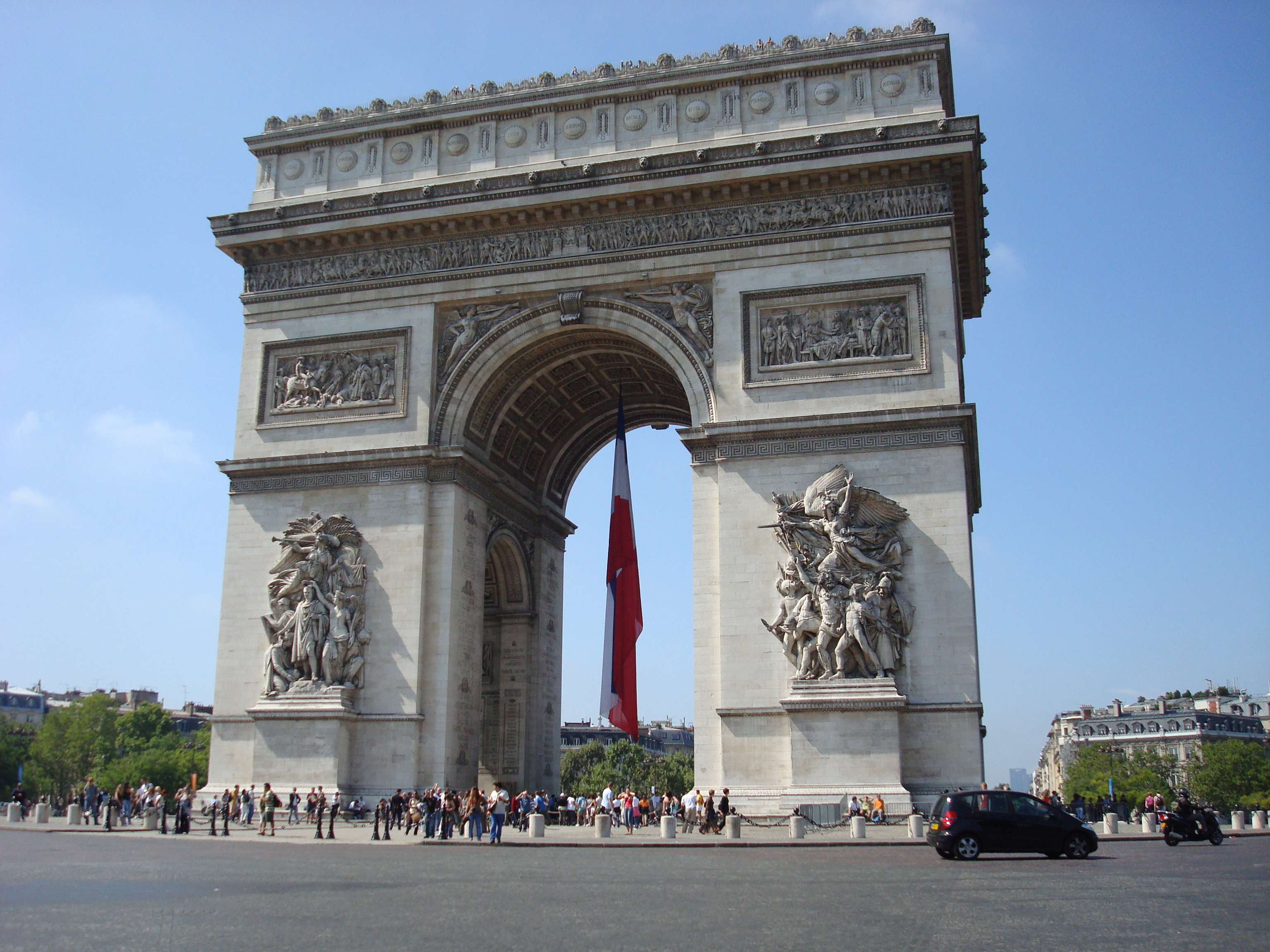 Arc de Triomphe, Paris, France